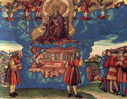 Illustration with Isaiah and seraphims from the Luther Bible.